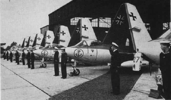 Commissioning of the first Hawker Sea Hawk Mk.100 fighters of the Federal German Navy (Bundesmarine) at Jagel naval air station, Schleswig-Holstein (Federal Republic of Germany), on 1 August 1958. The aircraft belonged to the Marineflieger-Geschwader 1 (1st Naval Fighter Wing).